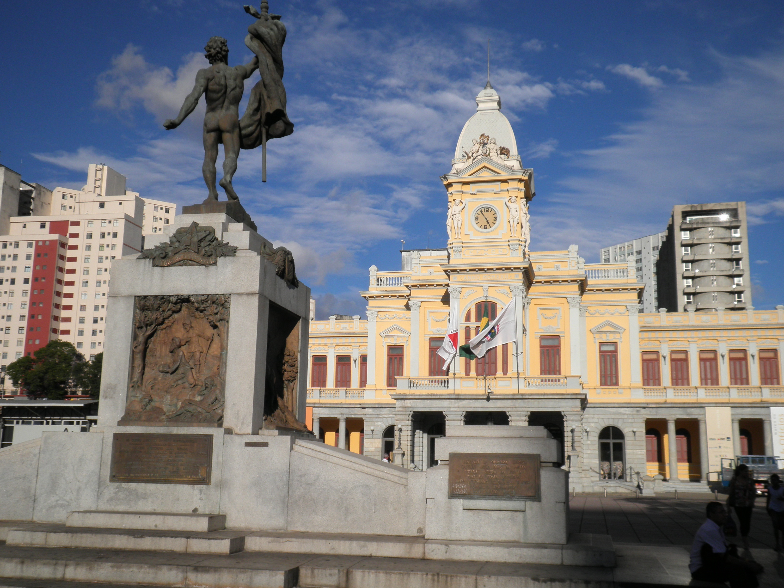 Belo Horizonte Central Station, state of Minas Gerais, Brazil